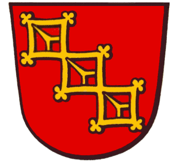 Coat of arms of Wasenbach